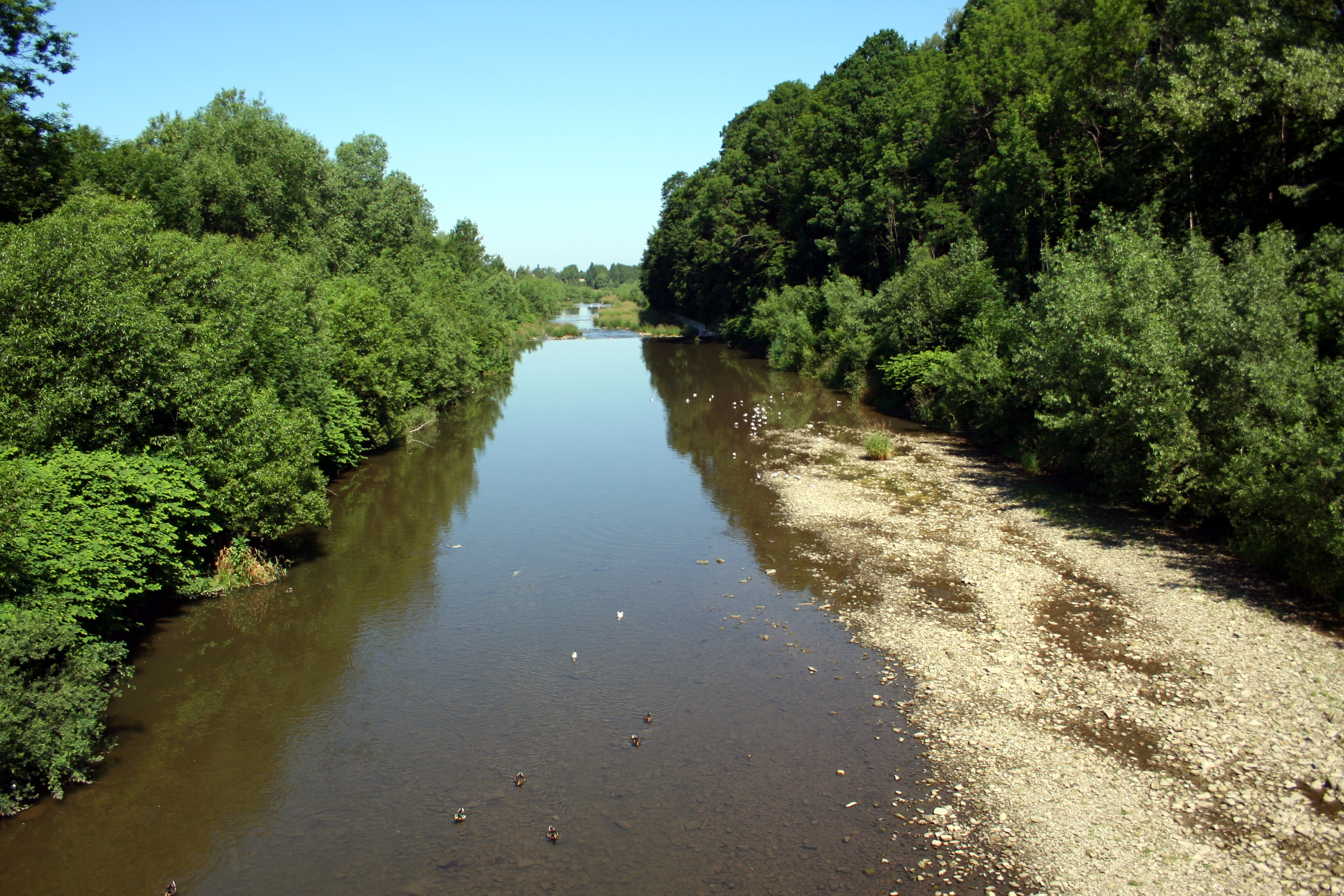 Wisła river, Ustroń, Poland